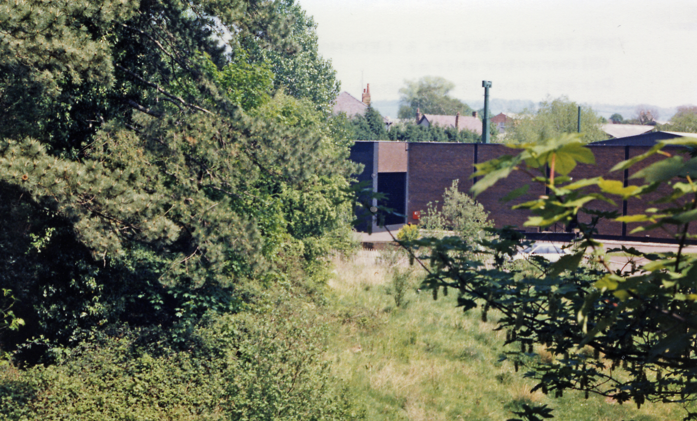 Site of Cheltenham South & Leckhampton station. View NW, towards Cheltenham (Lansdown and Hatherley Junctions): ex-GWR Cheltenham St James' - Andoversford - Kingham - Banbury line, also used by ex-M&SWJR trains from/to Andoversford from/to Cheltenham (Lansdown, later St James') - Cirencester - Swindon - Marlborough - Andover Junction. The latter ceased 11/9/61 and the station closed on 15/10/62 when the line to Kingham was closed